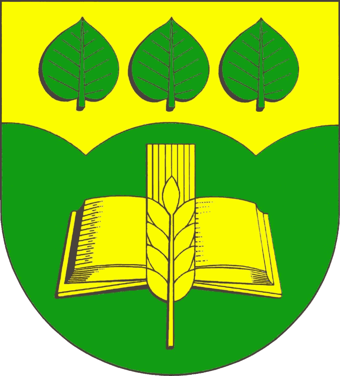 Coat of arms of the German municipality Oersberg